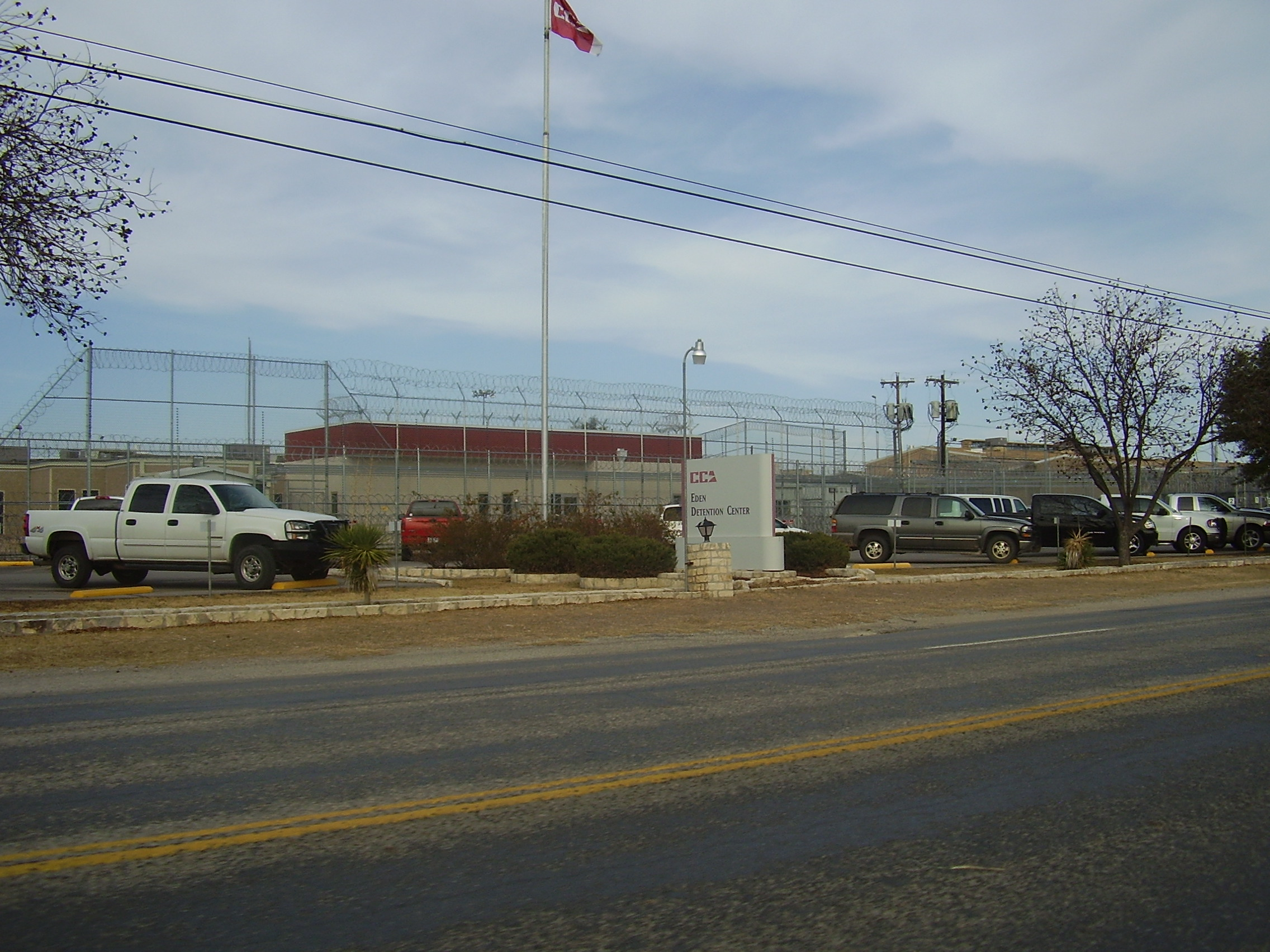 Eden Detention Center on U.S. Route 87